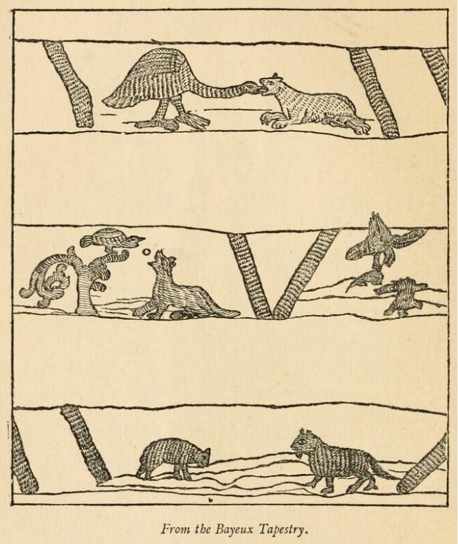 Drawing of three Aesop's fables found on the Bayeux Tapestry